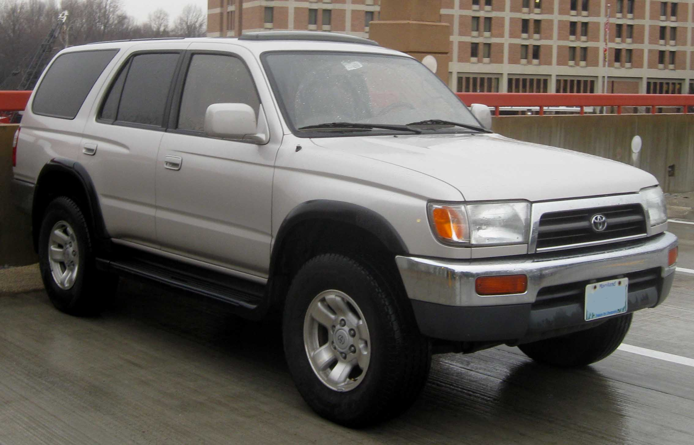 1996-1998 Toyota 4Runner photographed in Olney, Maryland, USA.